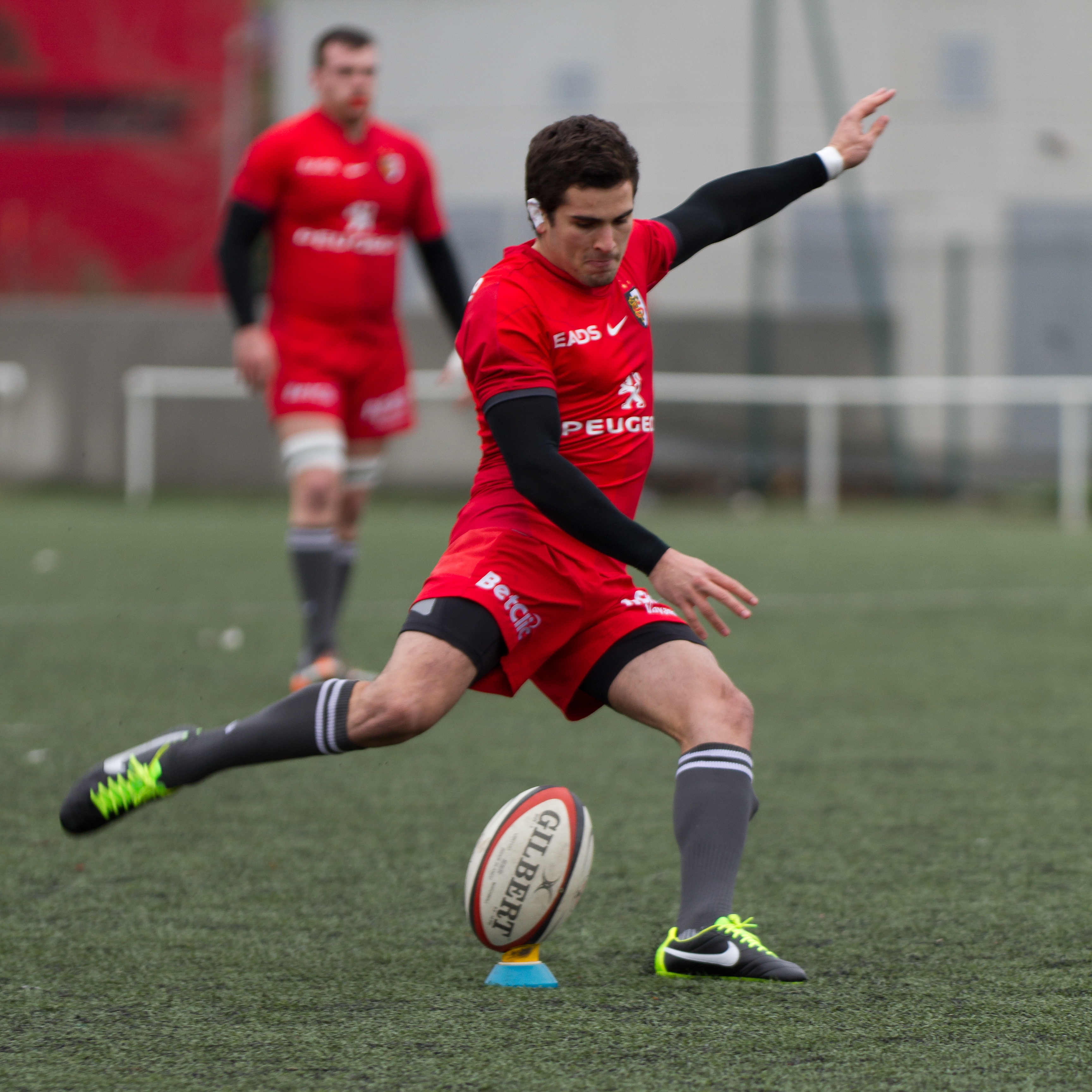 Rugby union french championship of U21, Stade toulousain vs Lyon OU Espoirs du Stade toulousain contre Espoirs de Lyon OU, 27 janvier 2013